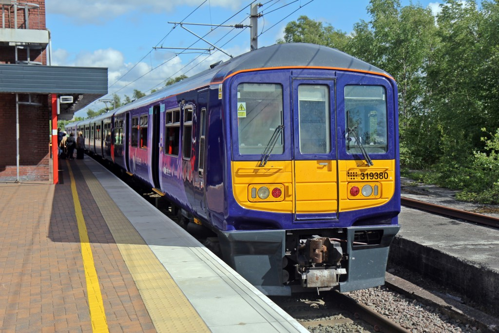 Northern Electric Class 319, 319380, platform 6, Wigan North Western railway station